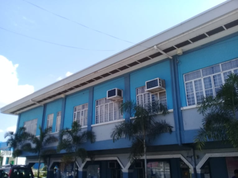 Santa Rosa Nueva Ecija municipal hall